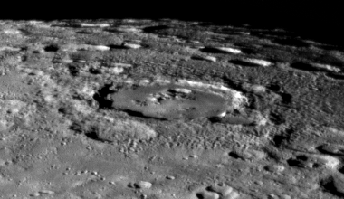 Oblique view of Magritte crater near the south pole of Mercury. Acquired on MESSENGER's first flyby. Cropped from EN0108830711M.